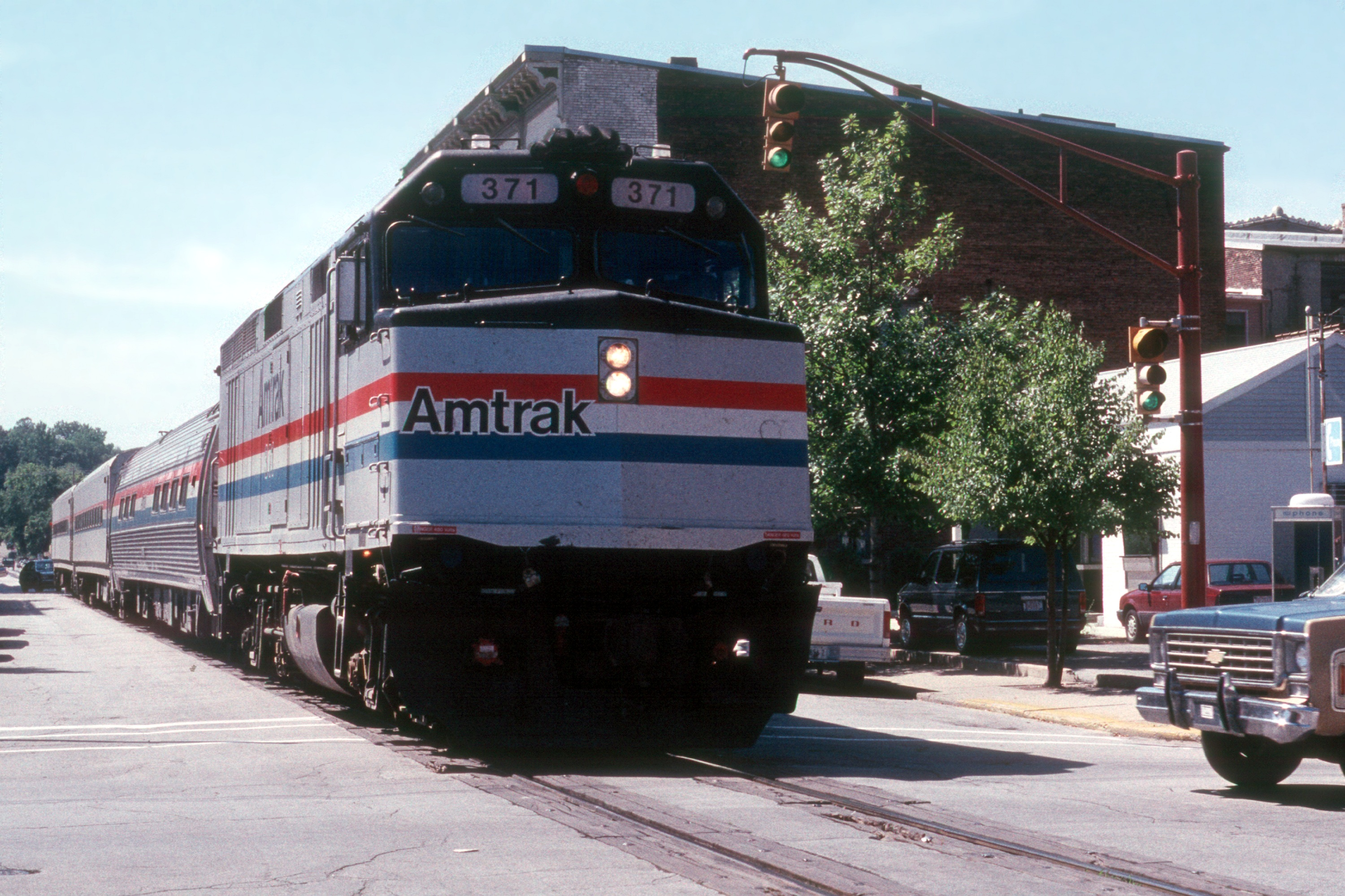 The northbound Hoosier State leaves the station stop on 5th Street in Lafayette, Indiana in September 1990. Trains had to run down the street until a bypass was completed in 1994.